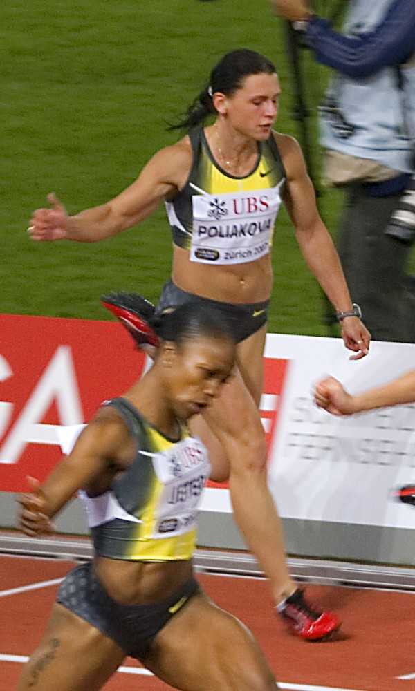 Yevgeniya Polyakova in the Iaaf Weltklasse Golden League meeting on September 7th, 2007 in Zurich, Switzerland.